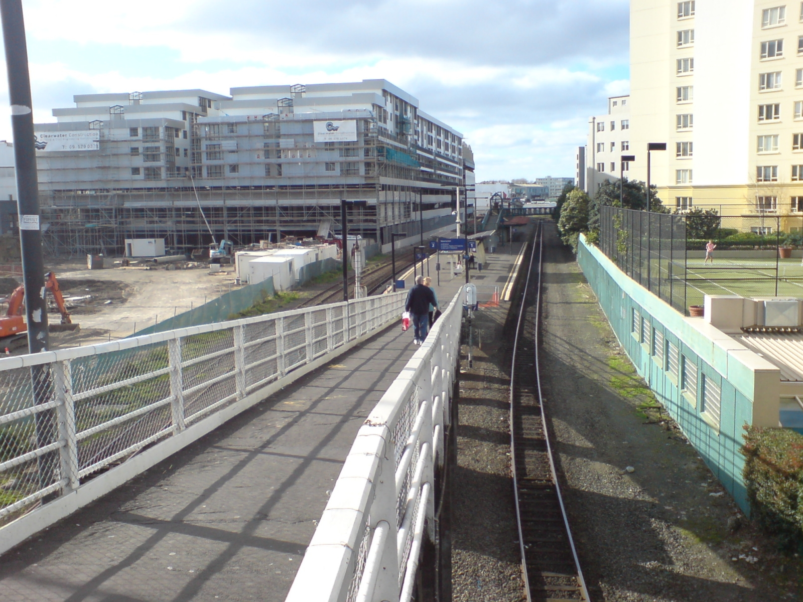 Newmarket Train Station in Newmarket, New Zealand. Seen from Remuera Road before its 2008 demolition and redevelopment.